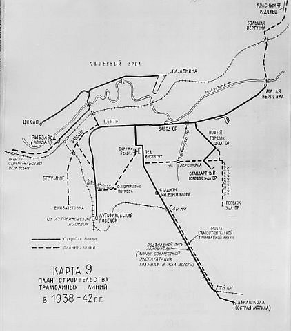 Plan of existing and projected tram lines of Luhansk in 1938-1942